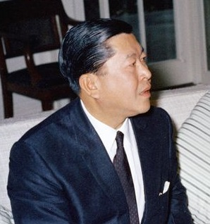 Meeting with Thanat Khoman, Foreign Minister of Thailand, 10:35AM